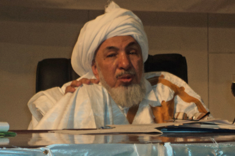 Mauritanian Islamic scholar Sheikh Abdullah Bin Bayyah is winning international praise for his work promoting peaceful co-existence.